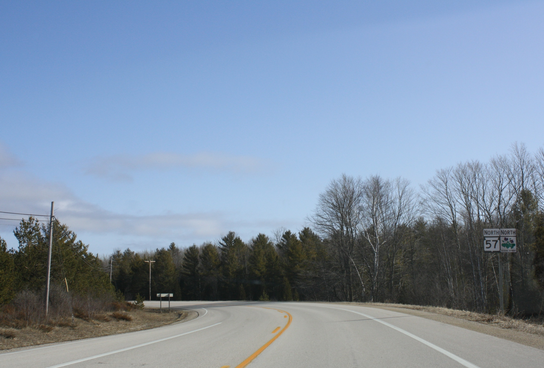 A portion of the Door County Coastal Byway concurrent with Wisconsin Highway 57.